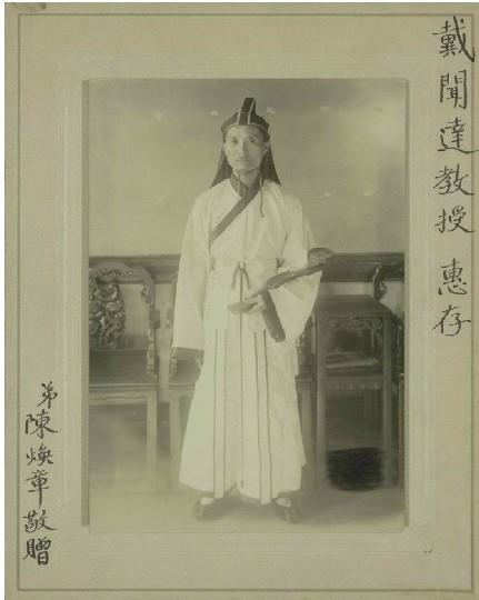 Chen Huanzhang (1881－1933)